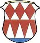 Coat of Arms of Gössenheim